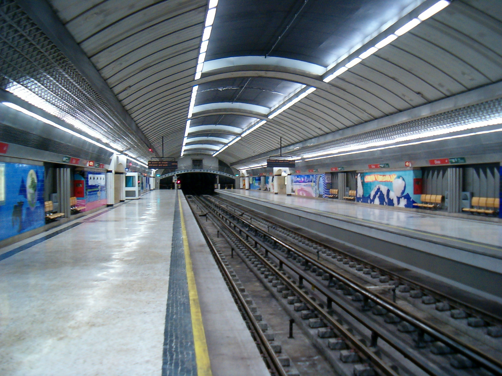 Olivais metro station of the Red Line (Linha Vermelha) of Lisbon's metro system; Lisbon, Portugal